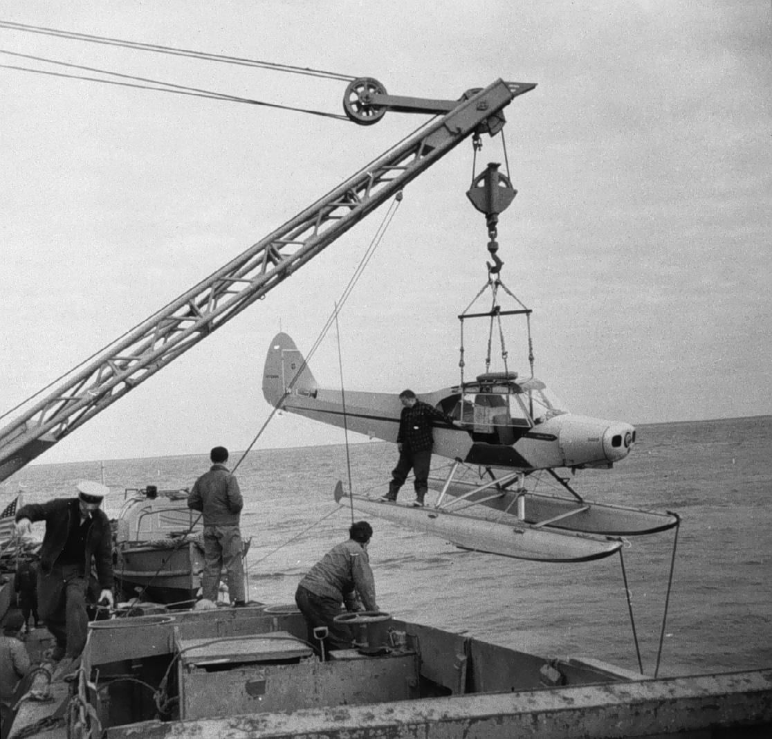 Loading a stripped down Piper Cub on the PIONEER. Plane used to tend tide gages and do reconnaissance. St. Lawrence Island, Bering Sea, Alaska.